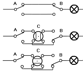 two-way and three-way switch